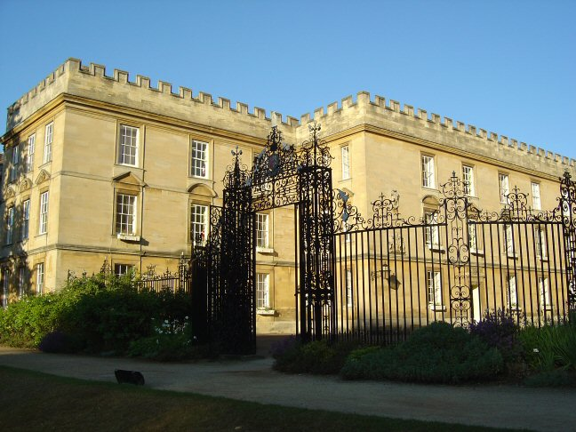 New College, Oxford University. Gate to the college gardens. Manners Maketh Man.